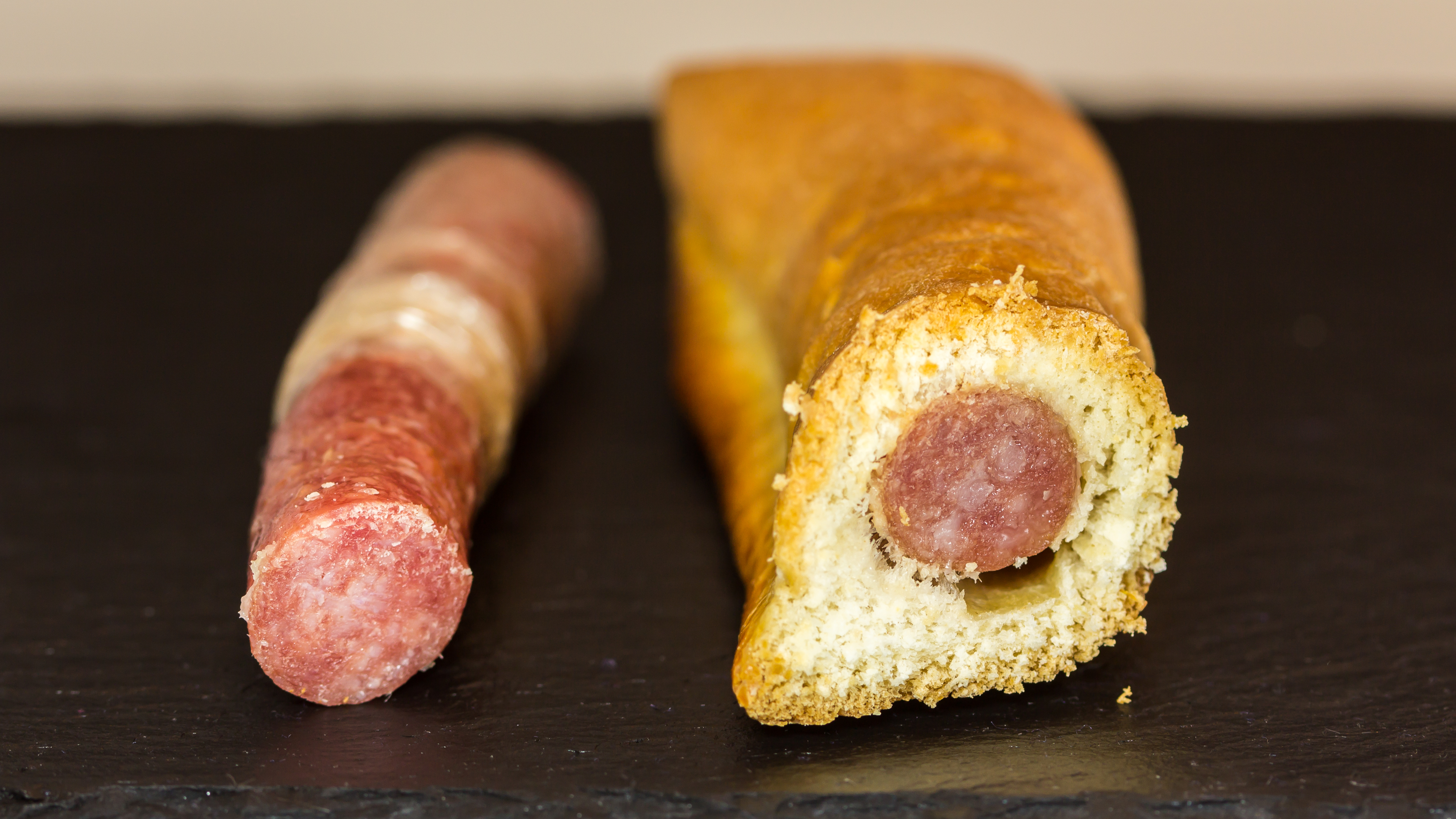 BiFi original and BiFi Roll, truncated